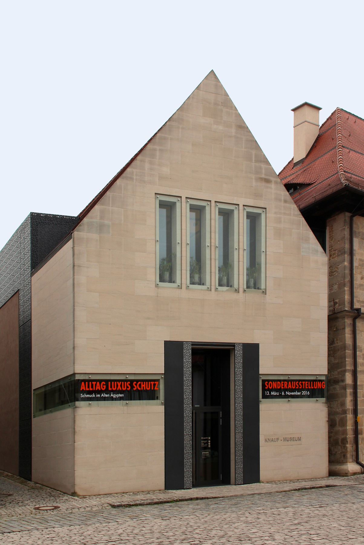 Knauf museum in Iphofen, Germany (new building)